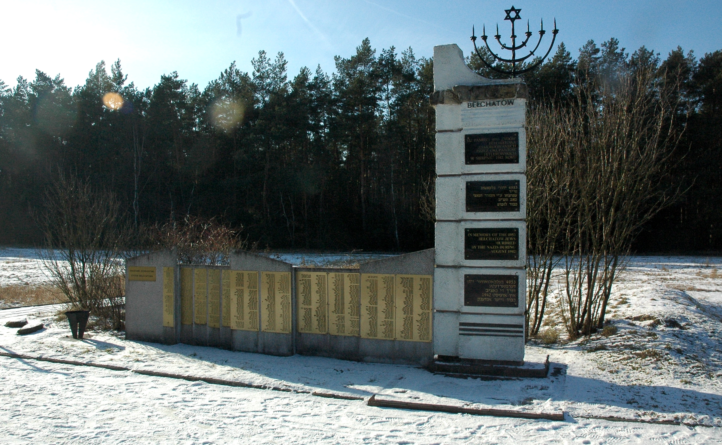 Monument commemorating Jews from Bełchatów, murdered in Kulmhof.